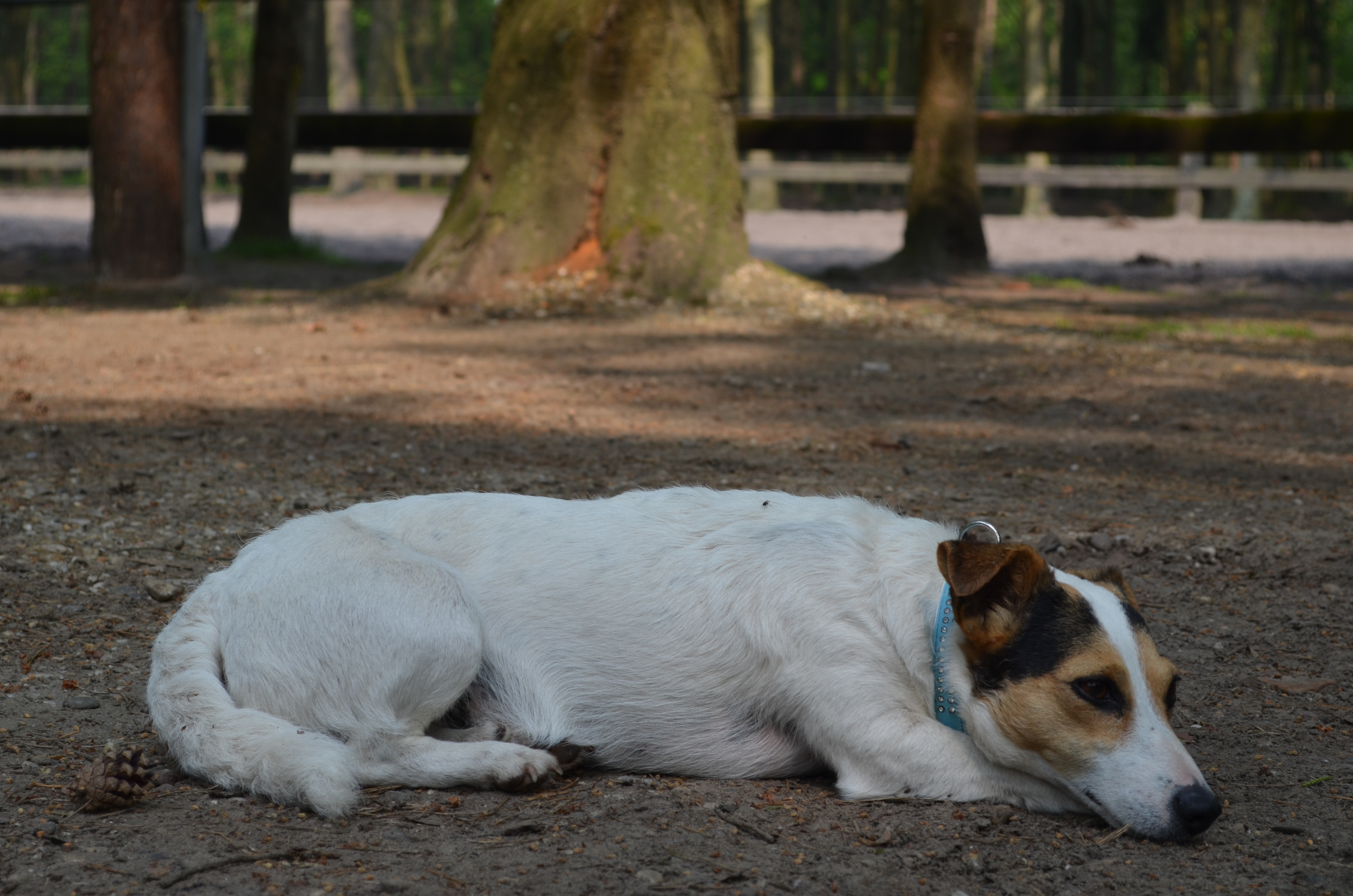 Jack Russell Terrier